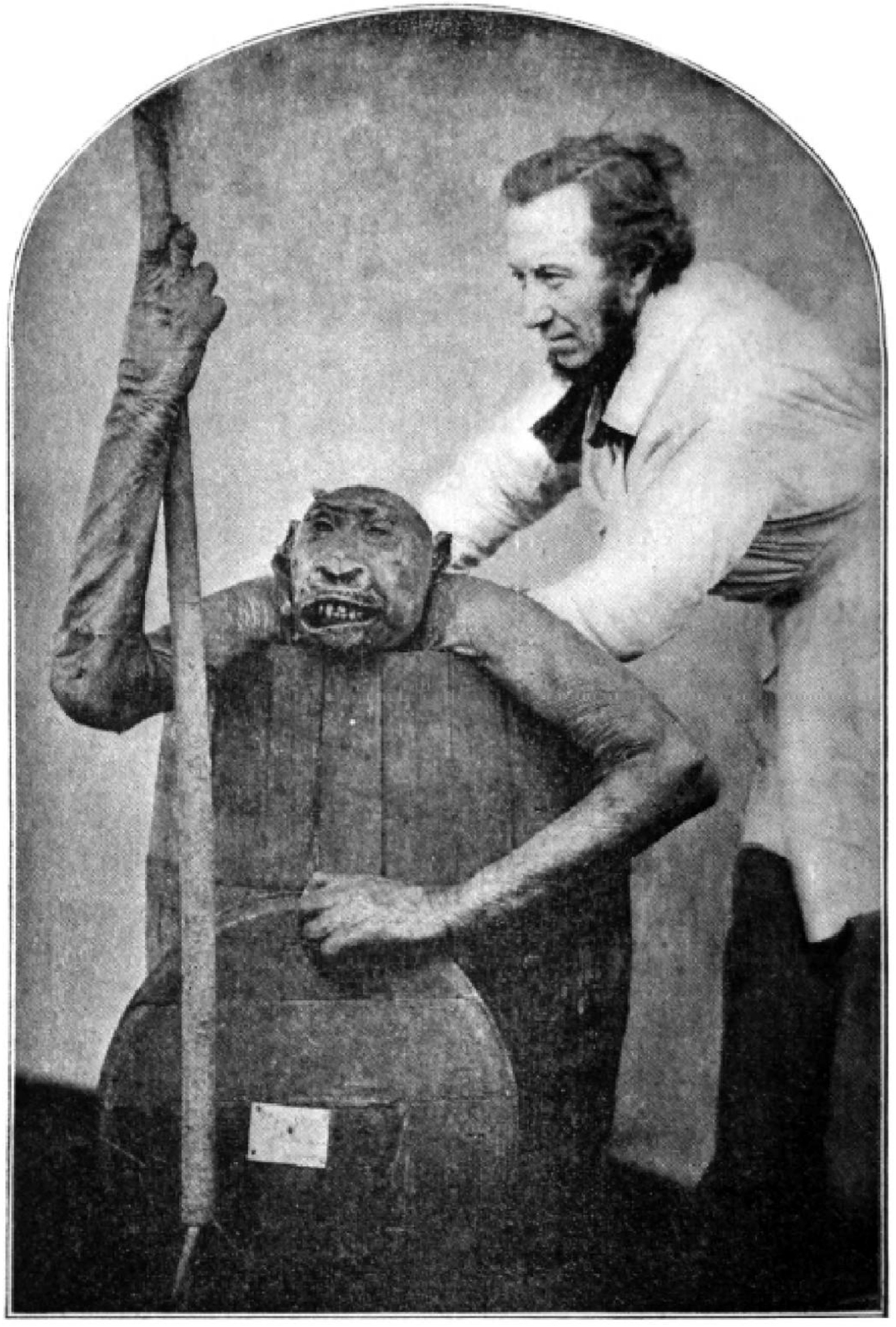 Abraham Dee Bartlett receiving a picked gorilla collected by Thomas S. Savage and gifted by Jeffries Wyman.[1]